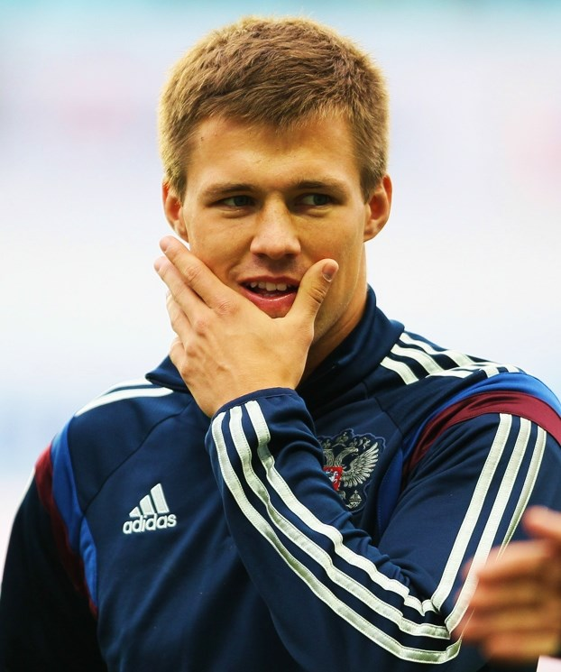 Maksim Kanunnikov